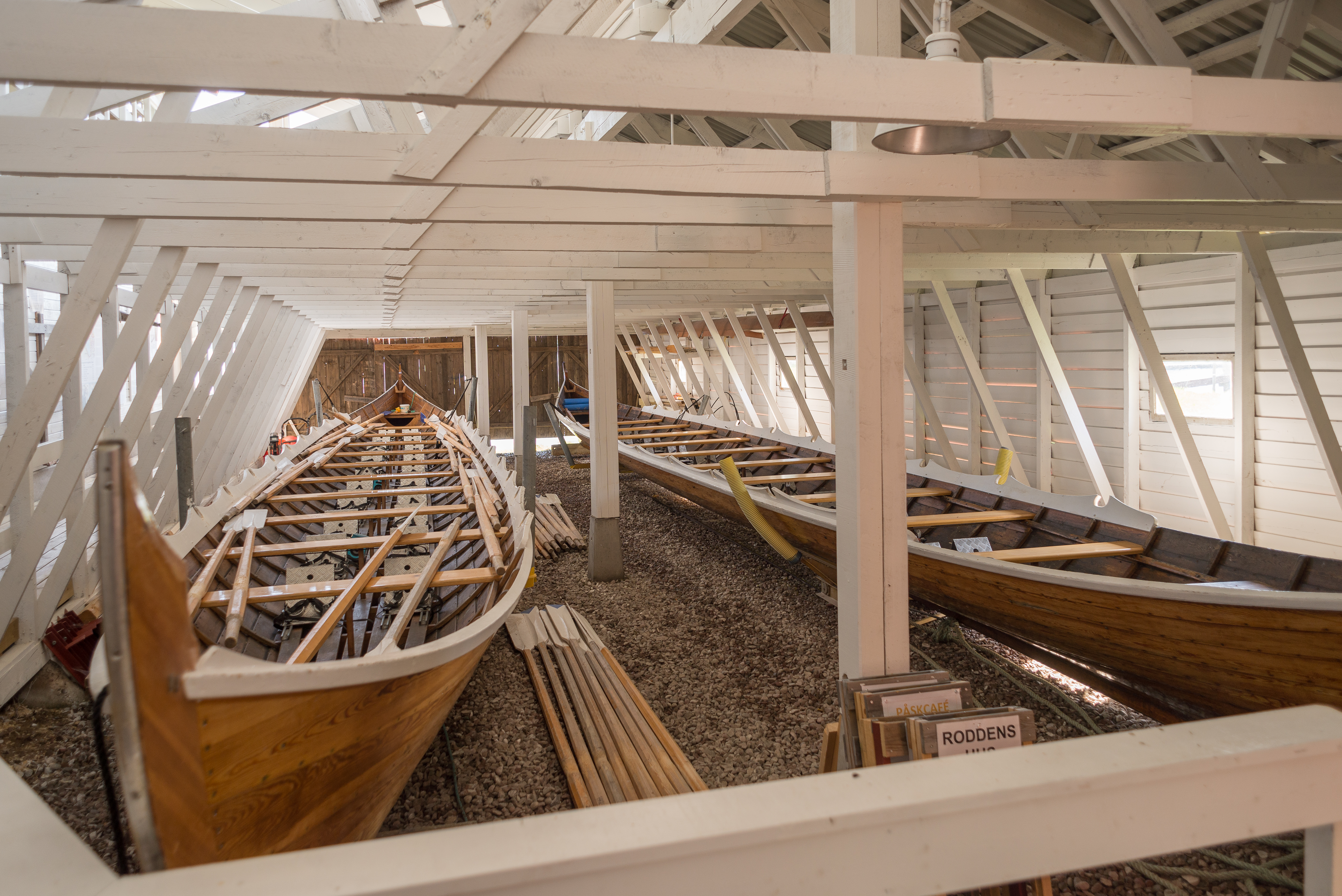 Roddens hus is a clubhouse for Brudpiga rowing club in Västanvik, Leksand Municipality.